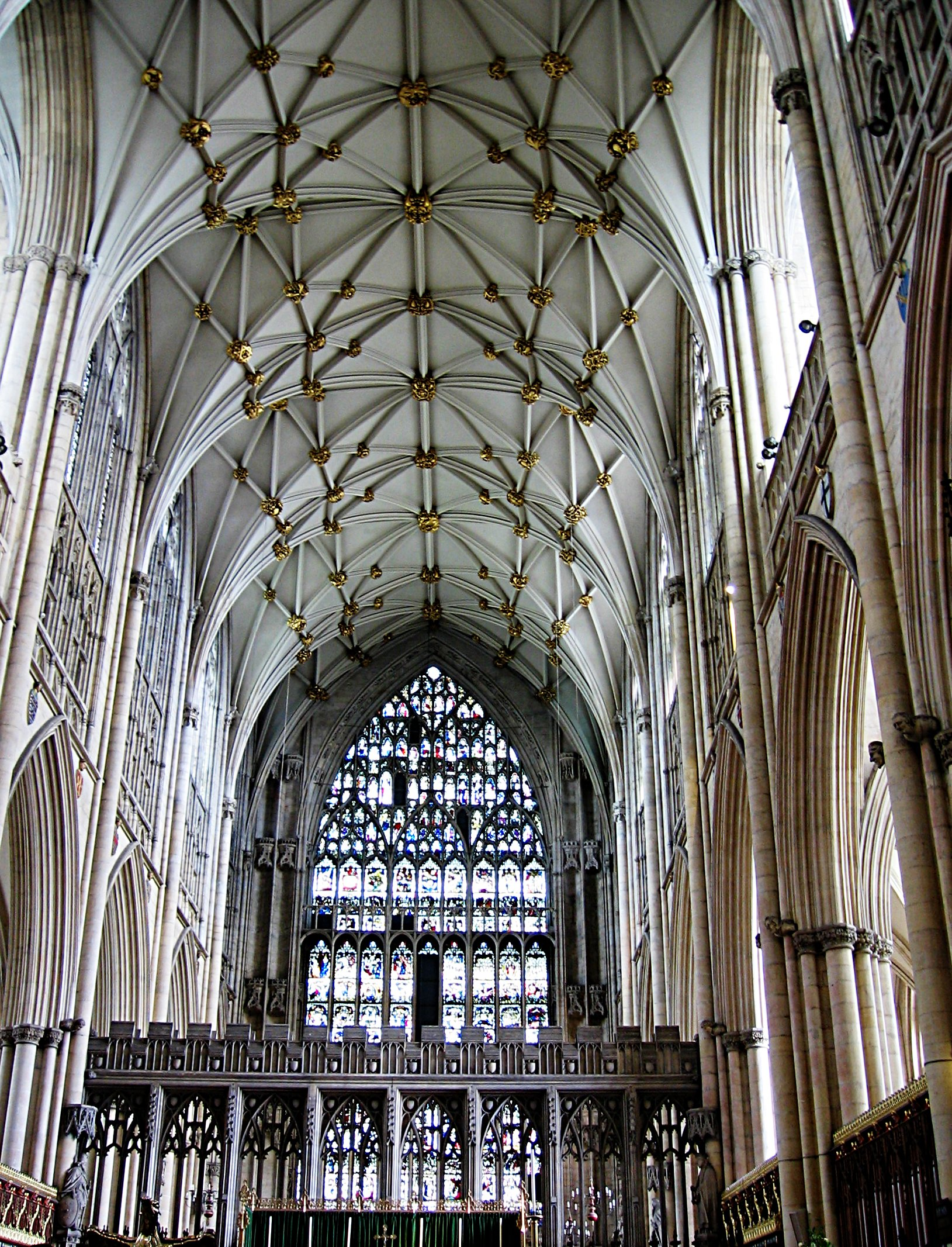 Inside of York Minster. Camera: Canon A520 (digital) Post-processing: cropped and unsharp mask using the Gimp